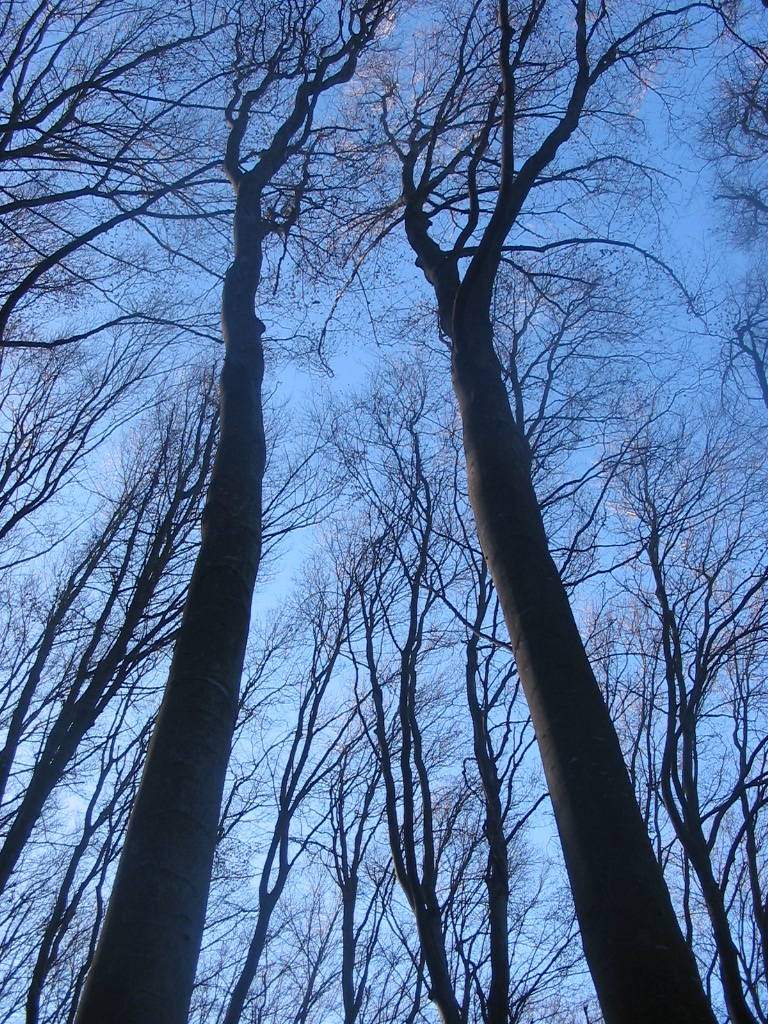 Beech trees. View from forest at village Pidvysoke, Berezhany district, Ternopil Oblast, western Ukraine.